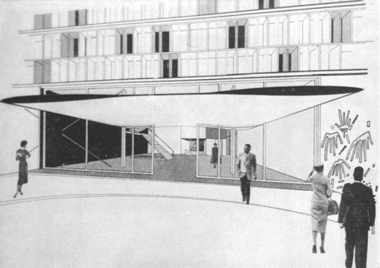 Edificio del Seguro Médico, Havana_Dibujo.quintana